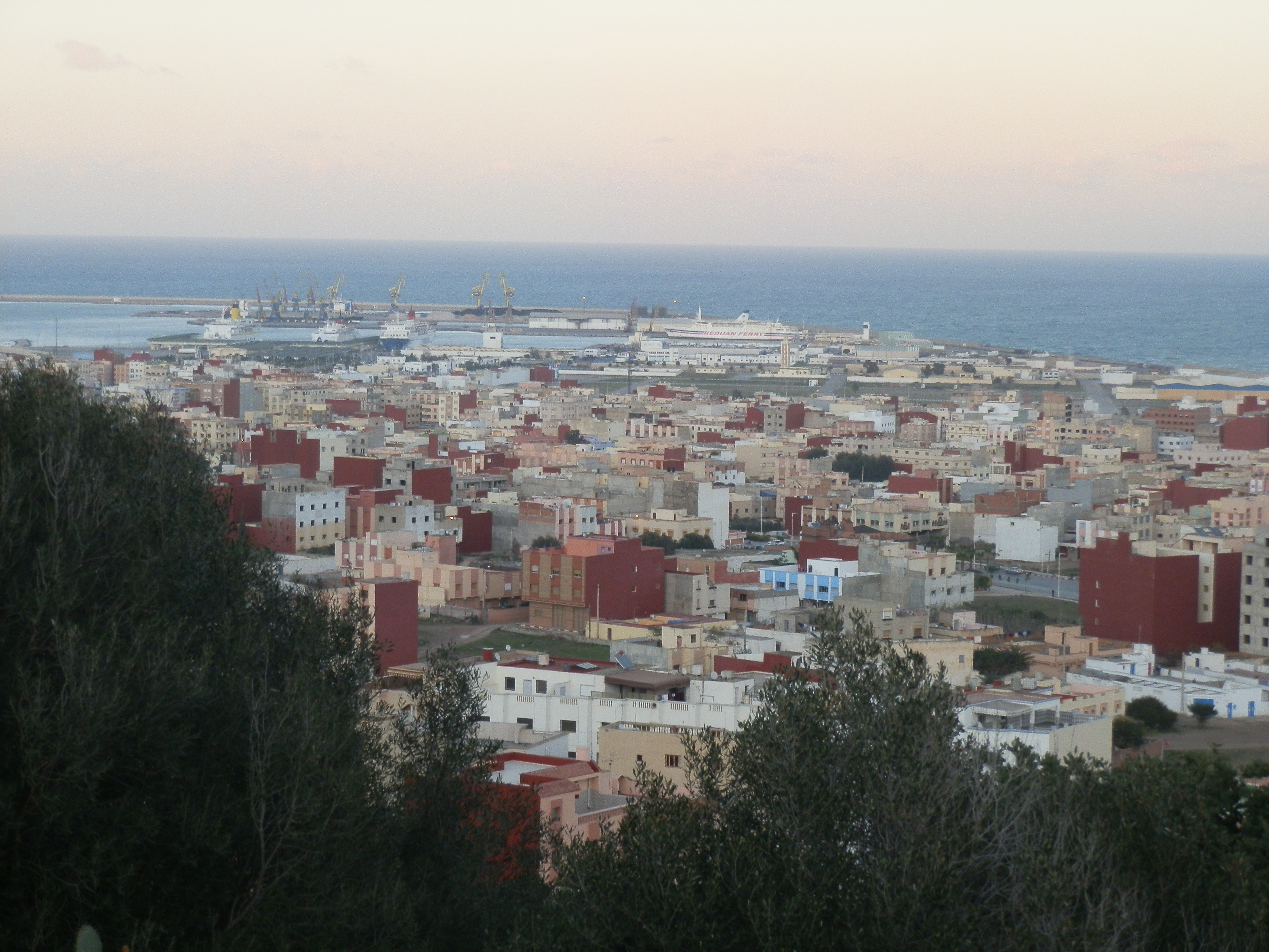 Aït Nsar (Arabic:آيث نصار/ بني انصار, Tamaziġt: Aït Nsar) or Beni Ansar or Blinsar is a town in Nador Province, Morocco, It is bordered on the north by the Spanish city of Melilla or Mritc.